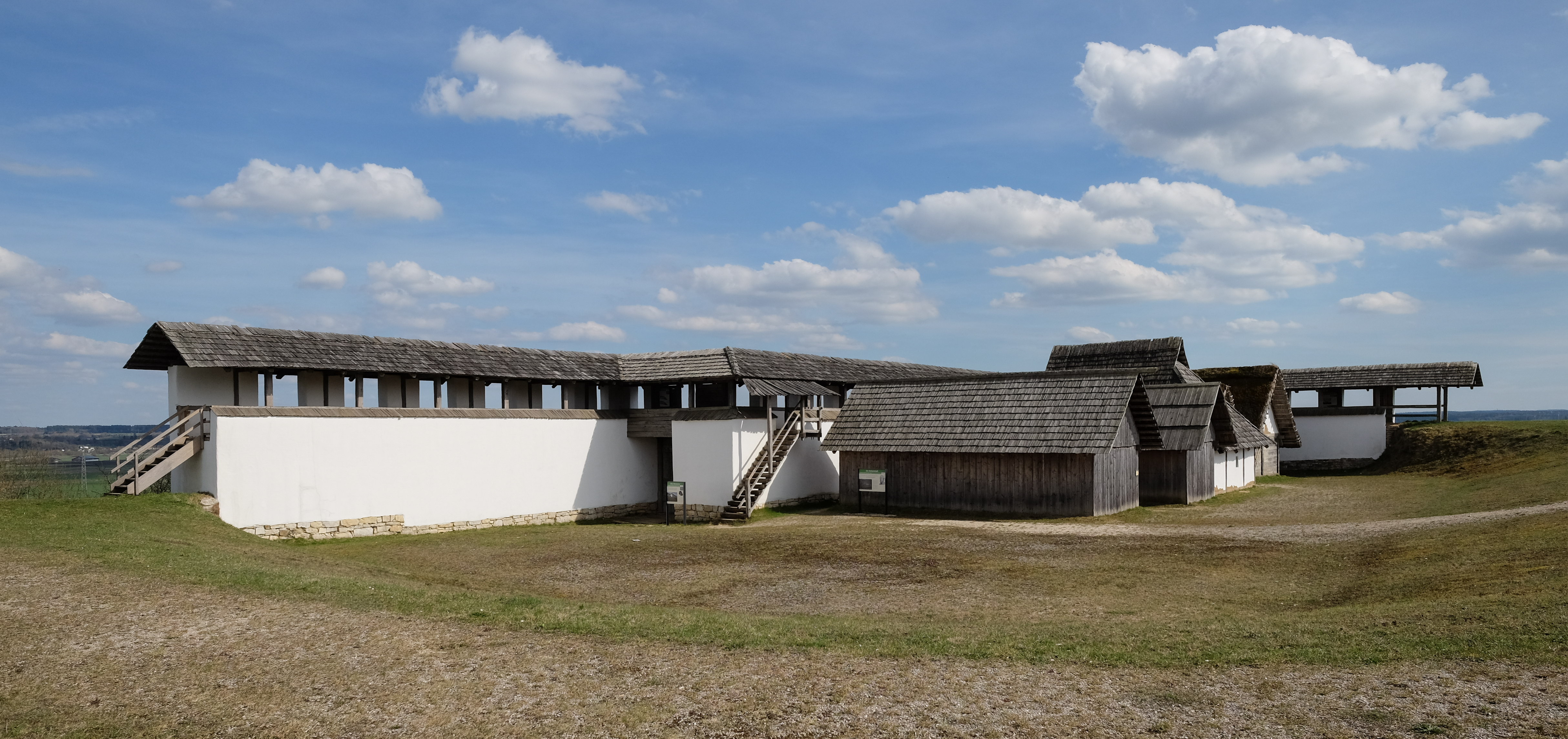 Prehistoric hillfort Heuneburg near Hundersingen, district Sigmaringen, Baden-Württemberg, Germany